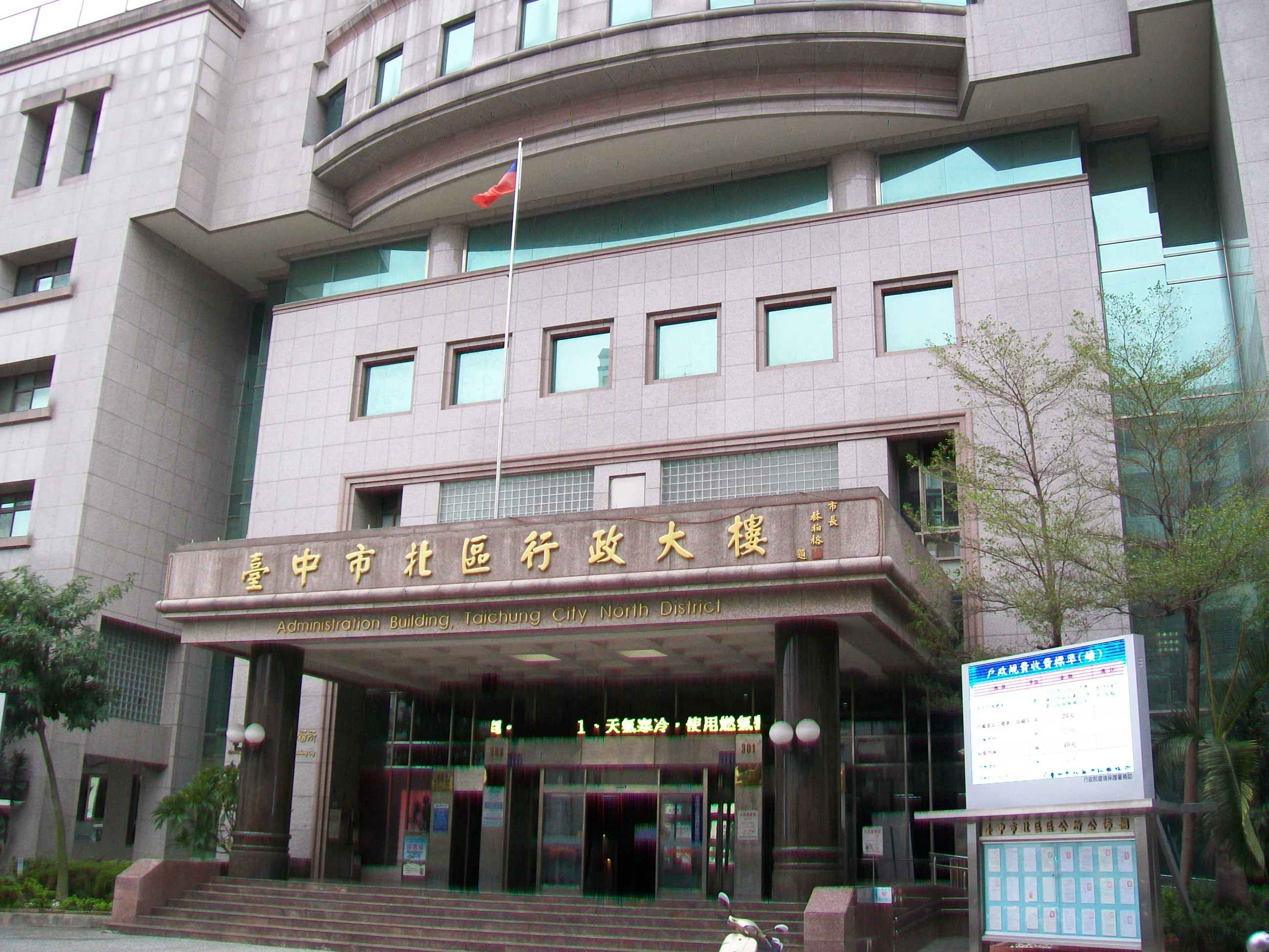 North District Administration Building, Taichung City.